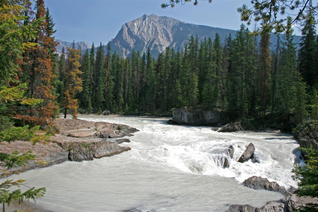 Mount Dennis in Yoho National Park, Canada